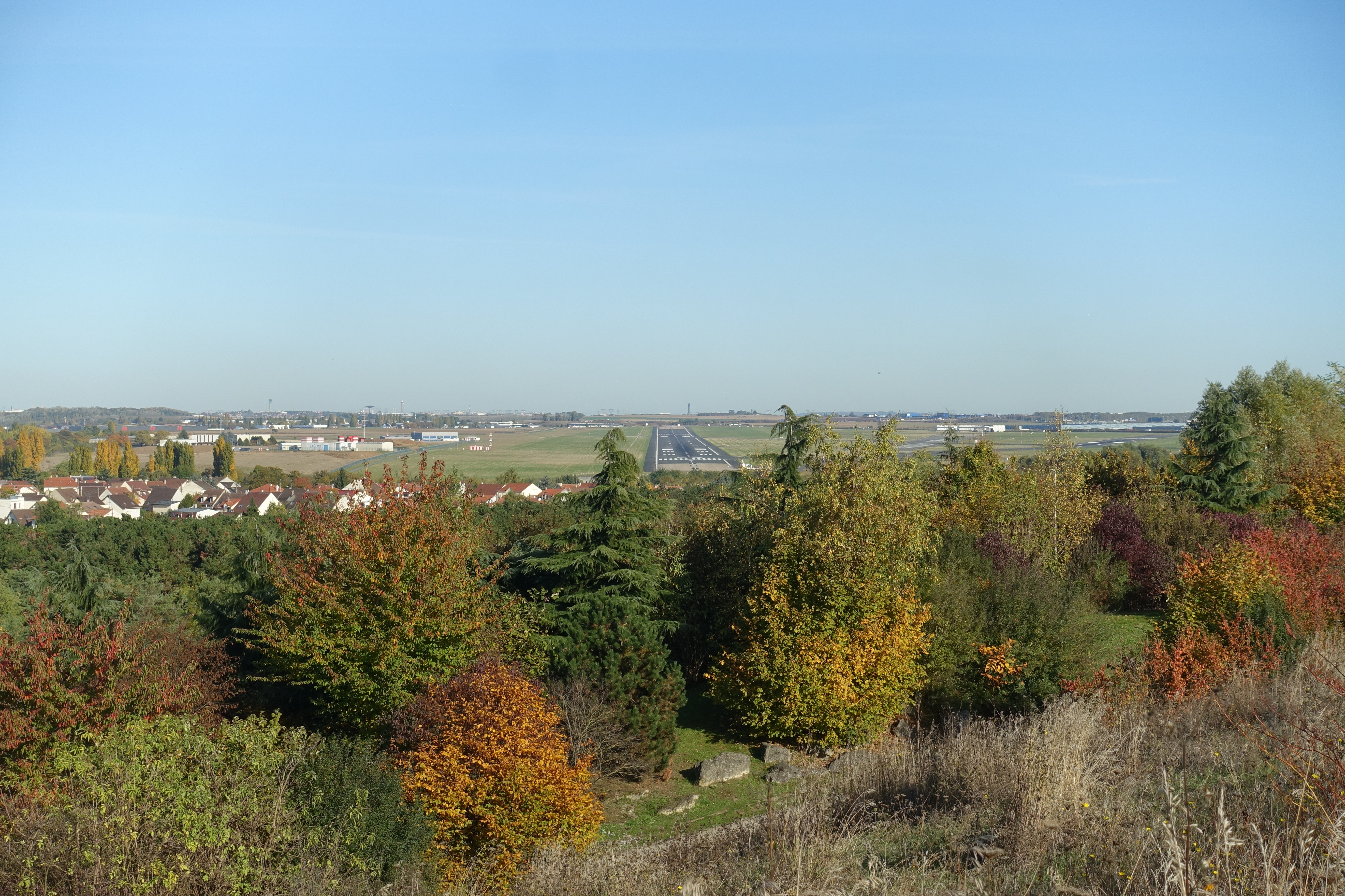 Georges Valbon Park, Seine-Saint-Denis, France.